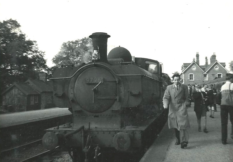 GWR Collett "57XX" Class 0-6-0PT's Nos.9796 & 3621 arriving at Brecon on a service from Neath (Riverside) on the last day of the passenger service, 06/10/62. Scanned from a photo taken with a Brownie 127.